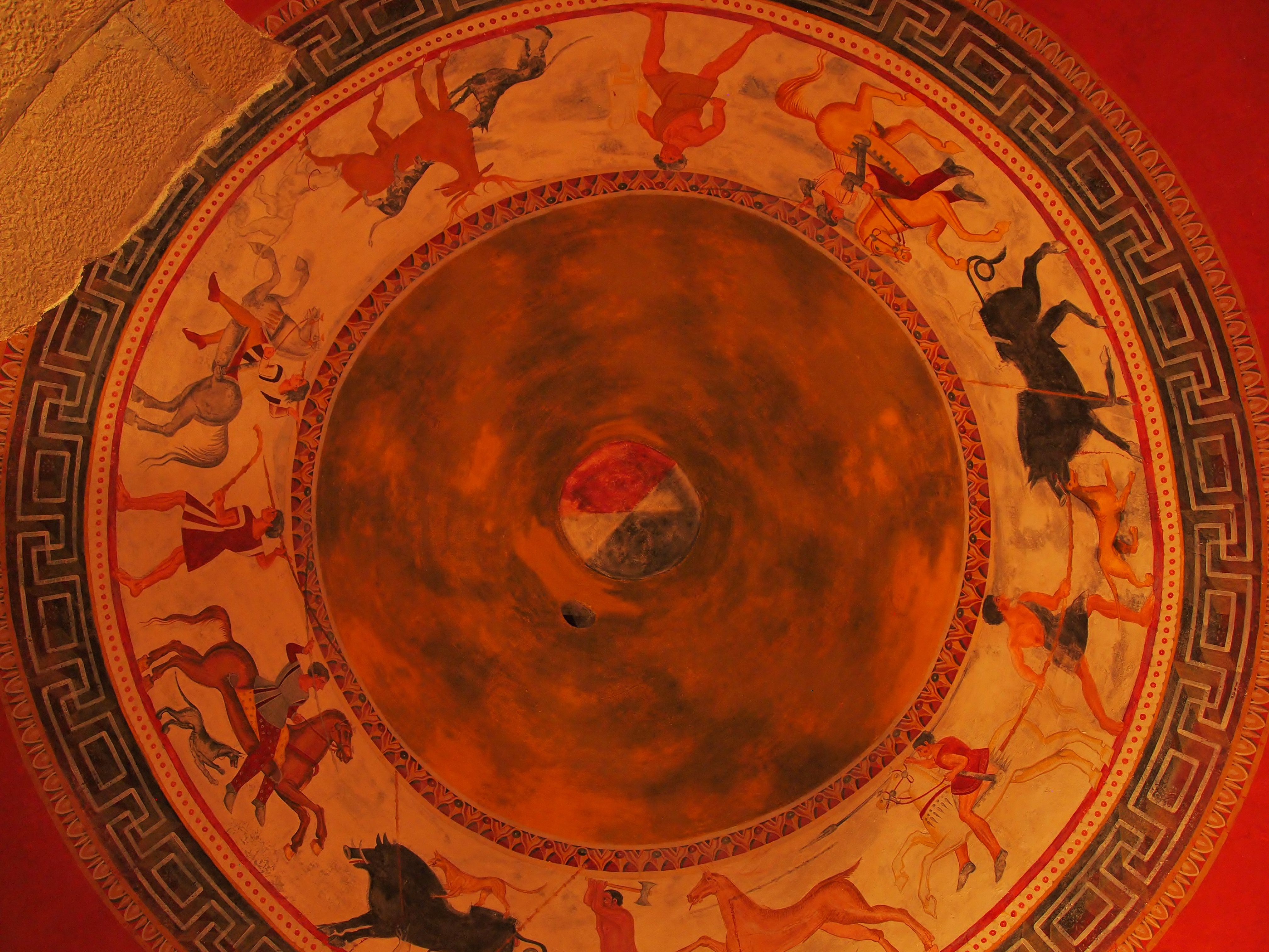 Not original frescoes from the copy of the tomb.